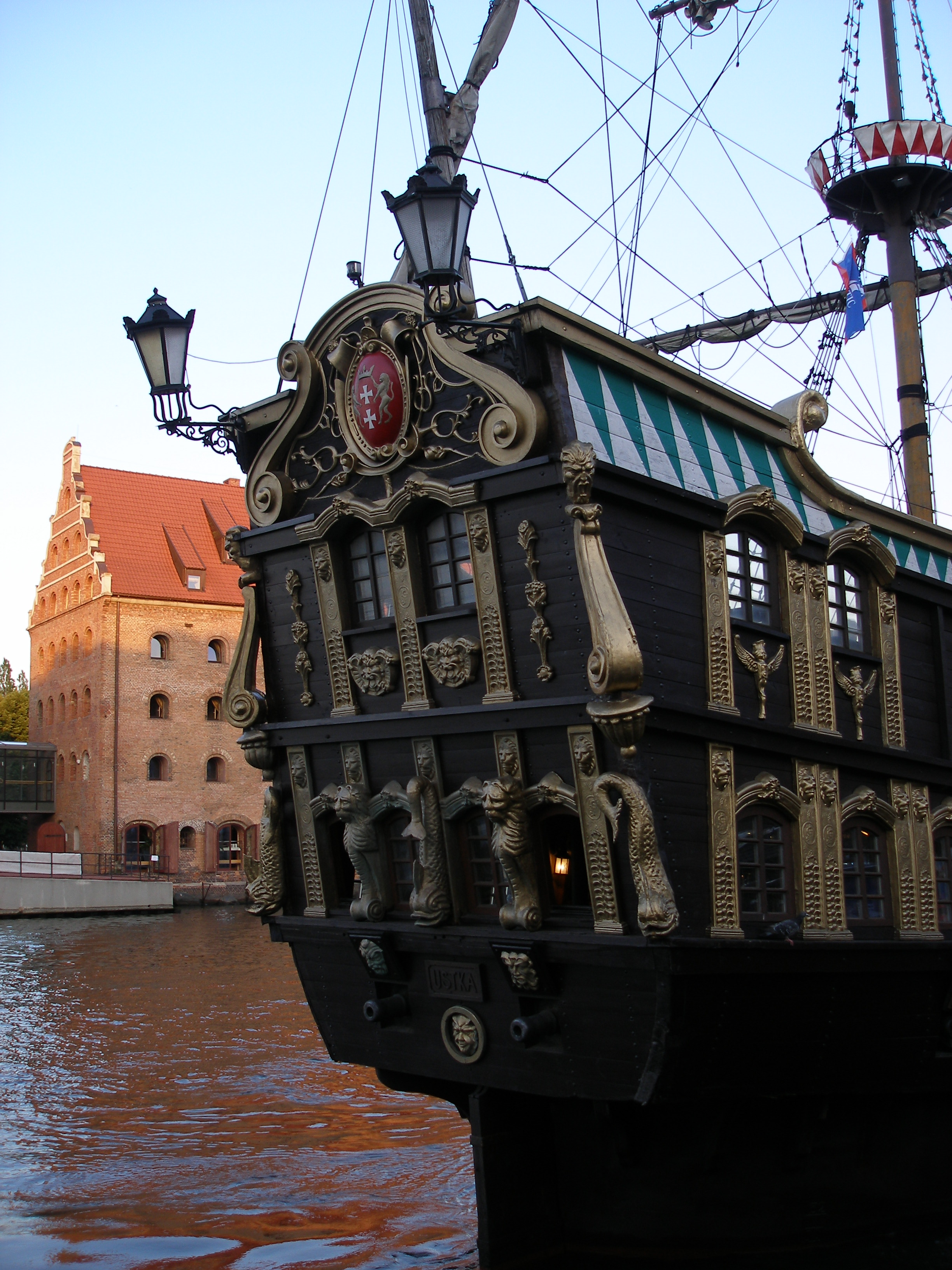 Gdańsk - "Lew" - seventeenth century galleon replica (stern). Picture taken in Gdańsk after Wikimania 2010 conference.